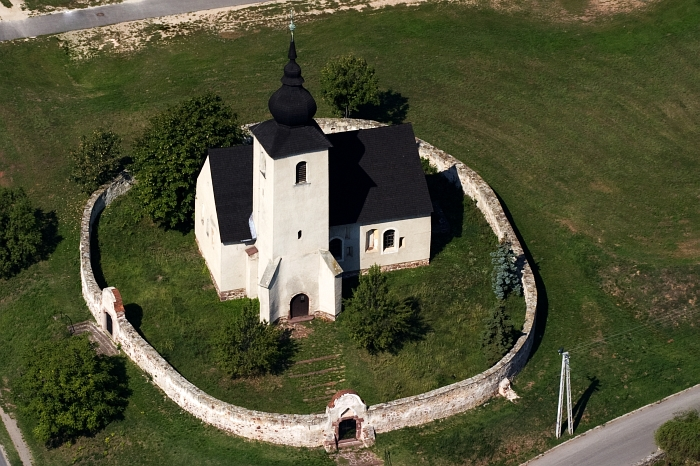 Reformed churches in Vörösberény district of Balatonalmádi, Veszprém County. Listed Id 9658. A Baroque church with Romanesque & Gothic elements. Object location47° 02′ 48.12″ N, 18° 00′ 30″ E This is a photo of a monument in Hungary. Identifier: 9658